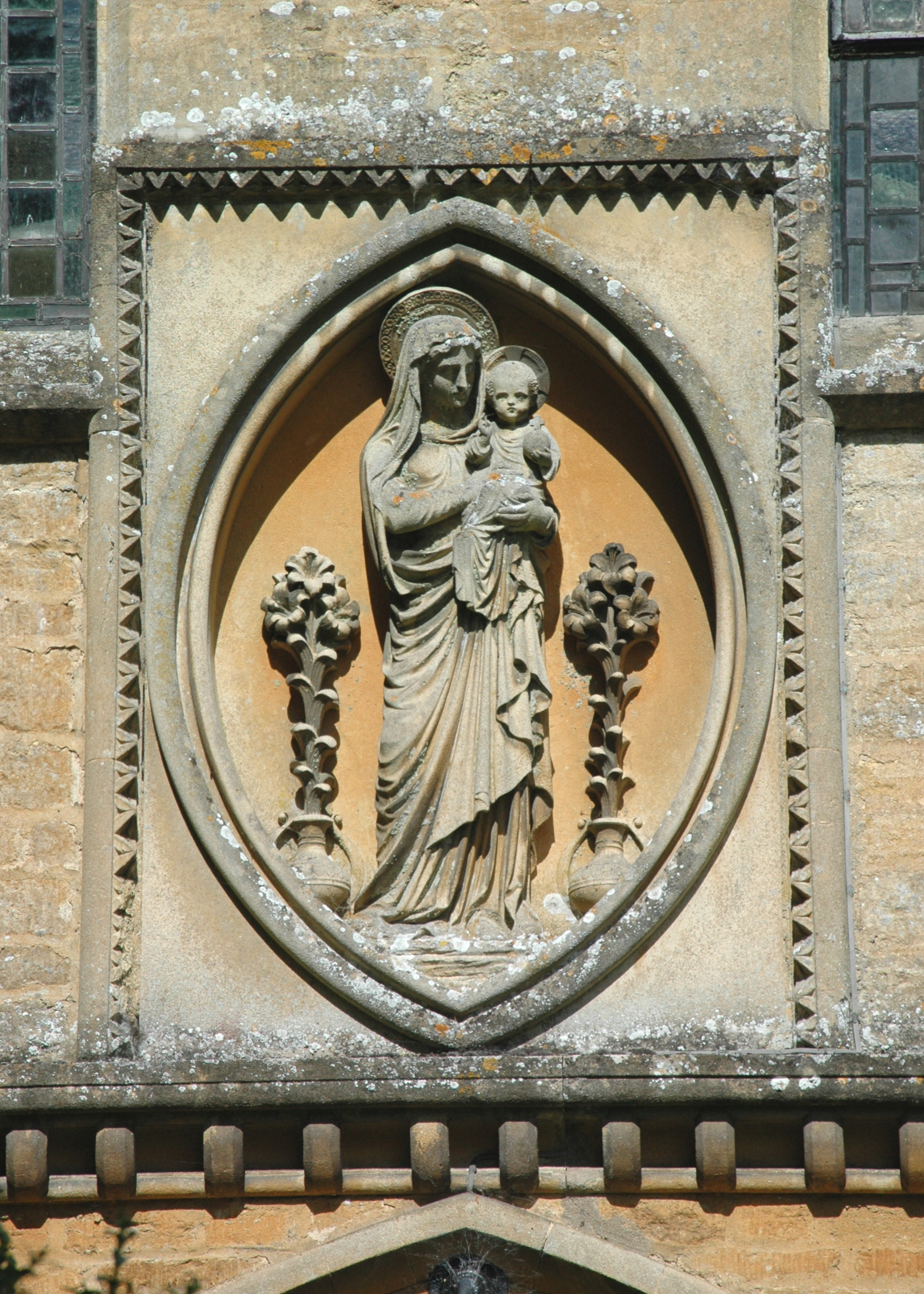 Church of England parish church of St Mary the Virgin, Freeland, Oxfordshire: image on the south porch showing the Madonna and child flanked by lilies within a lozenge